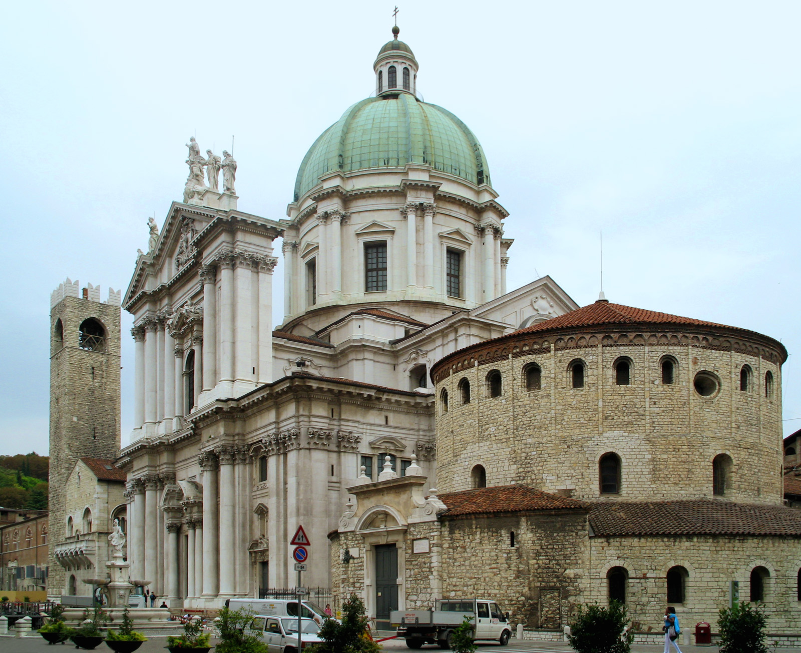 Old and New Cathedral as well as Broletto, located in the town of Brescia in Lombardy/Italy